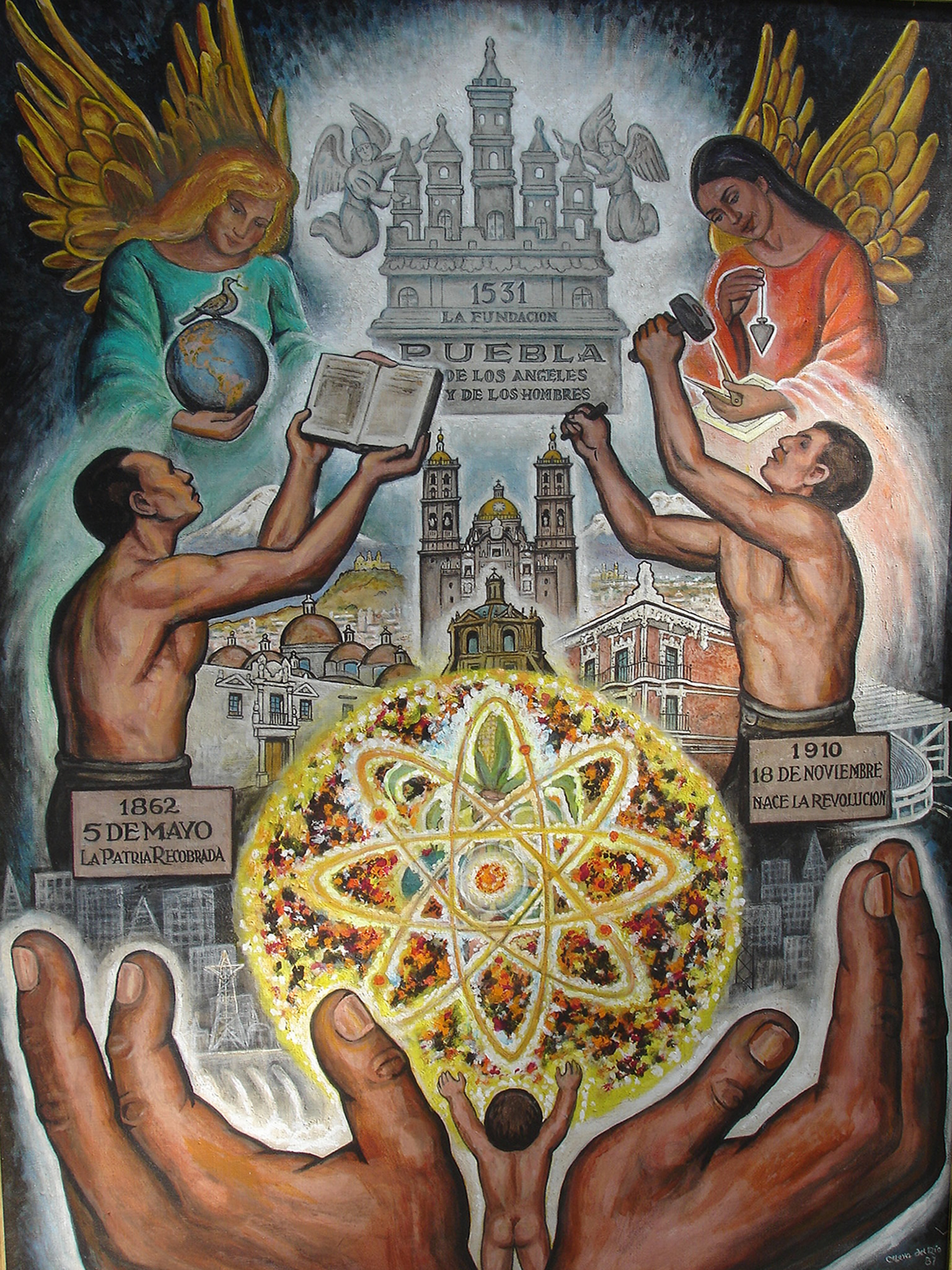 Fundacion Puebla por Roberto Cueva Del Río